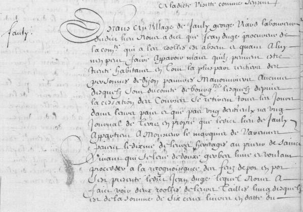 Minutes drawn up by P. Comeau, viscount mayor of Dijon, elected from the Third Estate, of the visit to the towns and boroughs of the bailiwick subject to the subsidy.